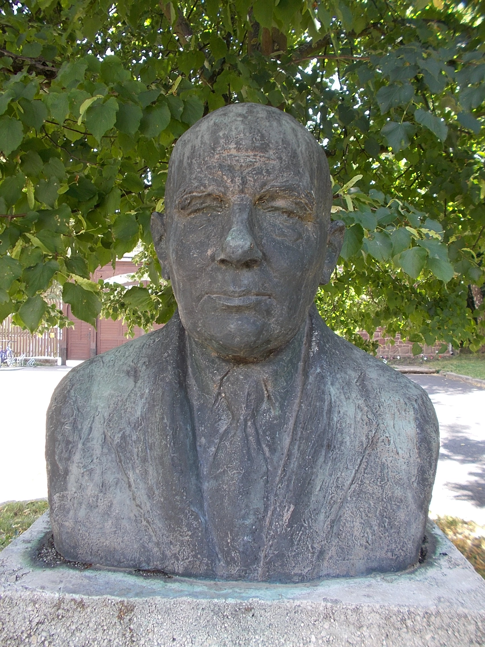 Bust of Kálmán Kittenberger by Lenke R. Kiss (1978) in Veszprémvölgy (Betekints-völgy), Veszprém, Veszprém County, Hungary.